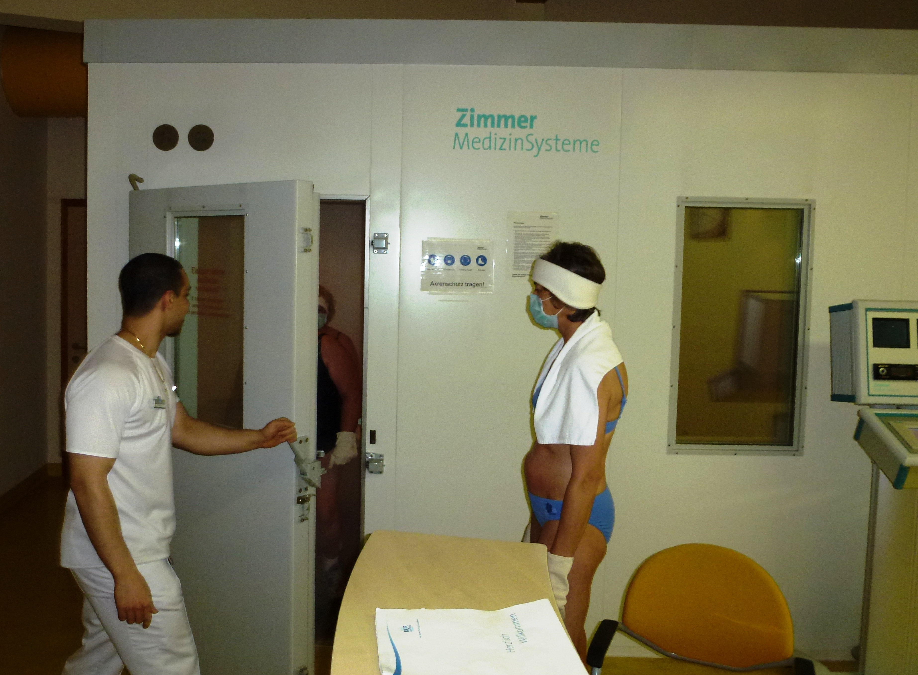 Cryo-Therapy Chamber during entry of patients, in Bad Bleiberg, Austria